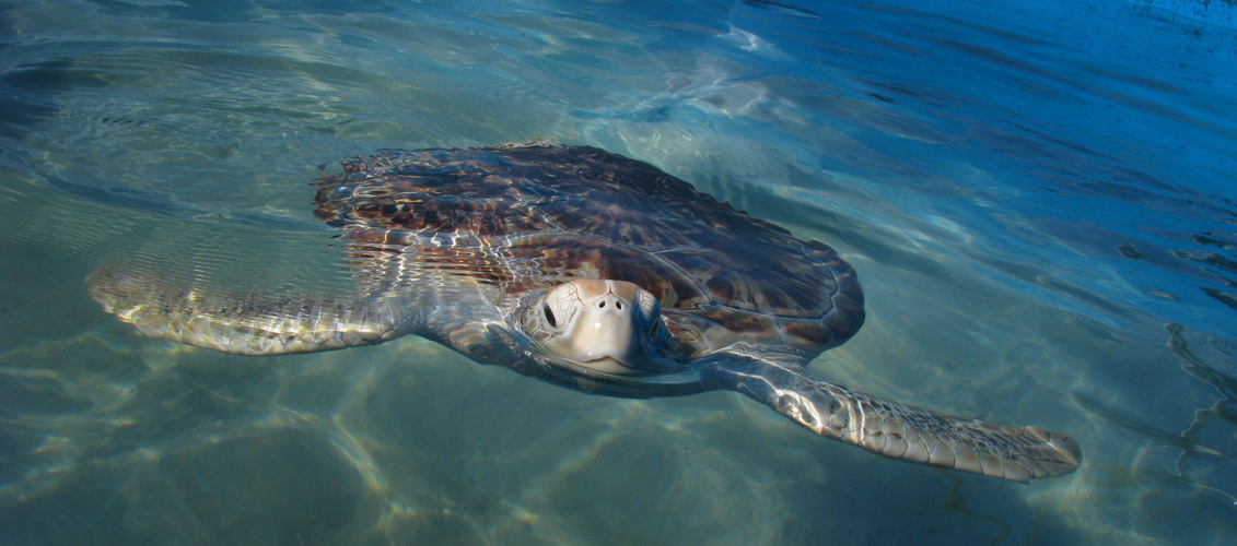 A friendly greeting at the sea turtle farm.